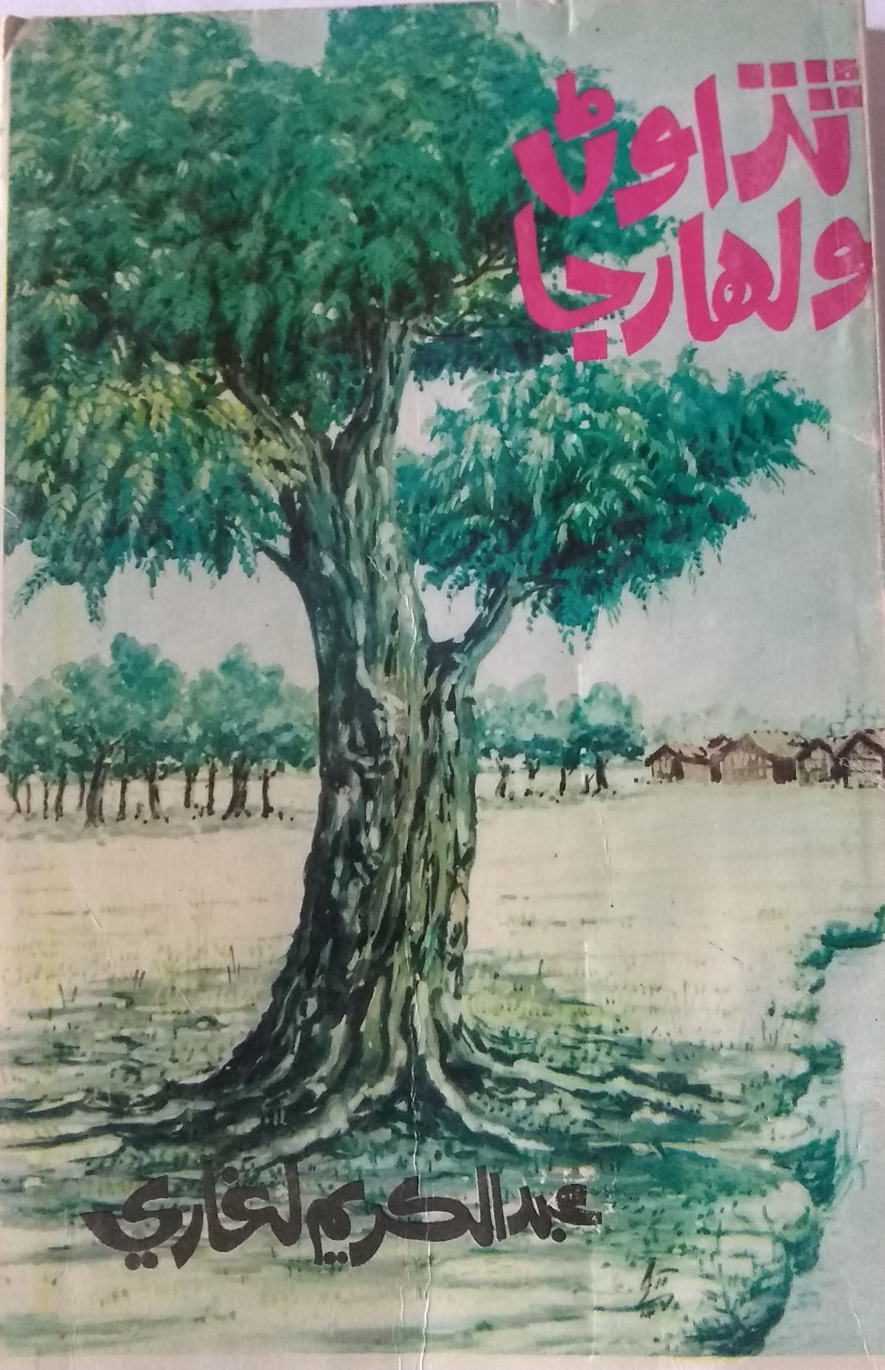 تھدا ون ولہار جا